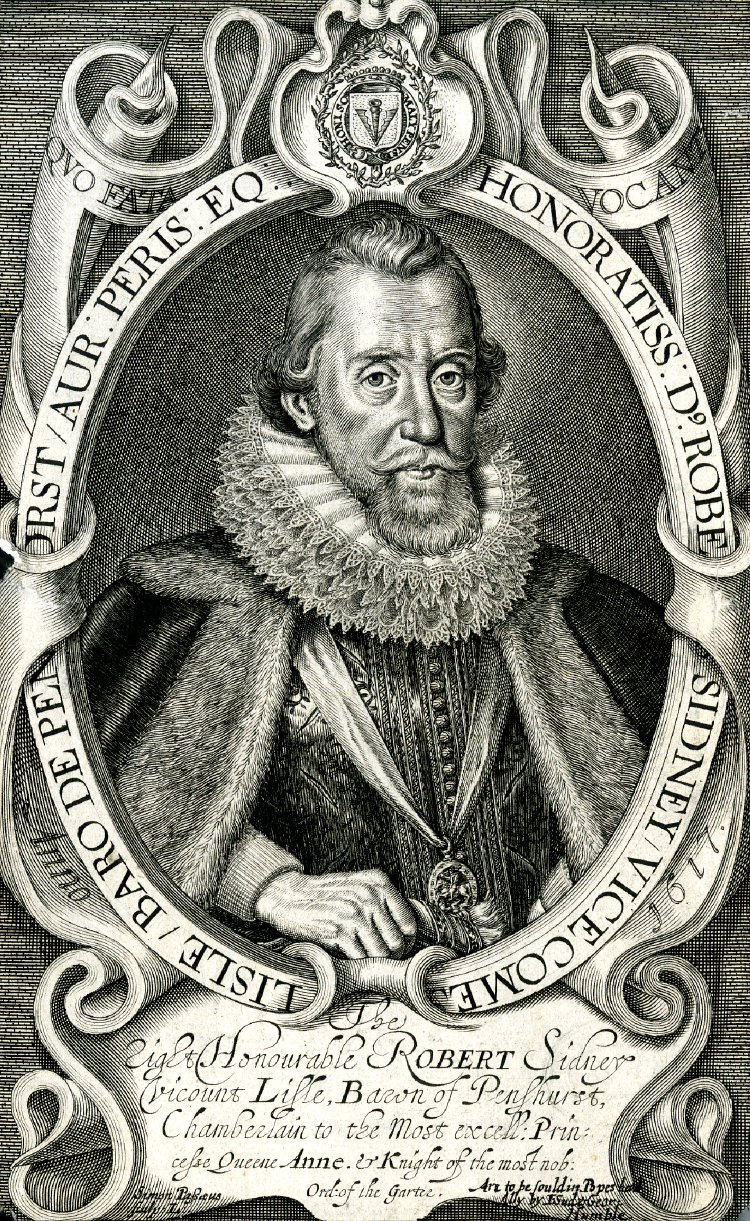 Portrait of Robert Sidney, 1st Earl of Leicester (1563-1626). Courtesy of the British Museum, London.